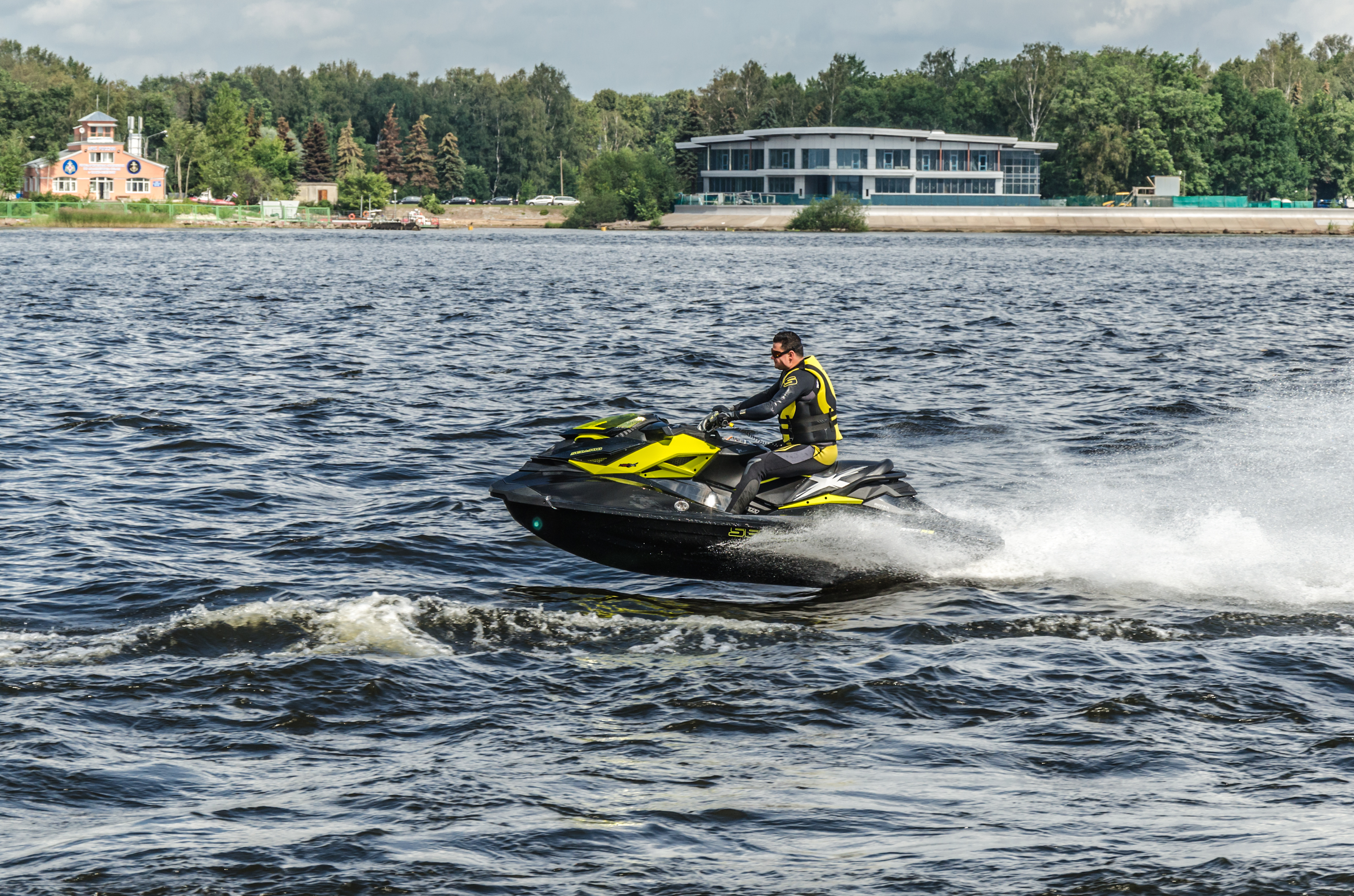 Water scooter racing on Neva Bay